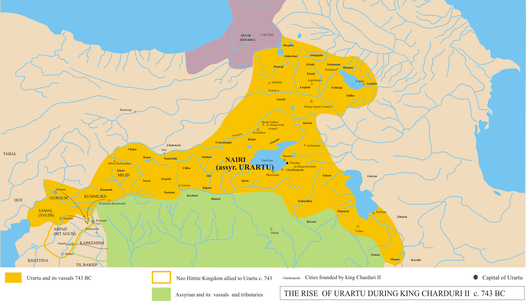 Urartu's maximal expansion in 743 BC catalanian wikipedia by Usuari:Jolle